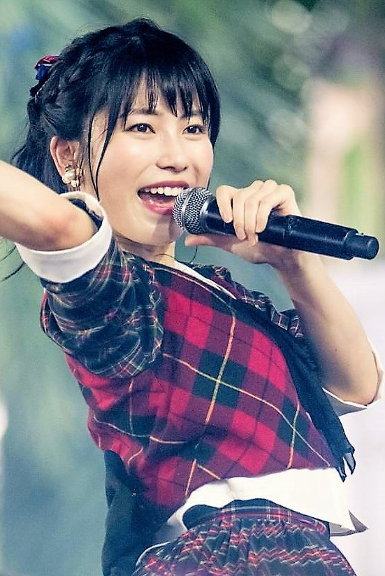 Yui Yokoyama performing at Japan Expo Thailand 2018 held in Bangkok on January 28, 2018